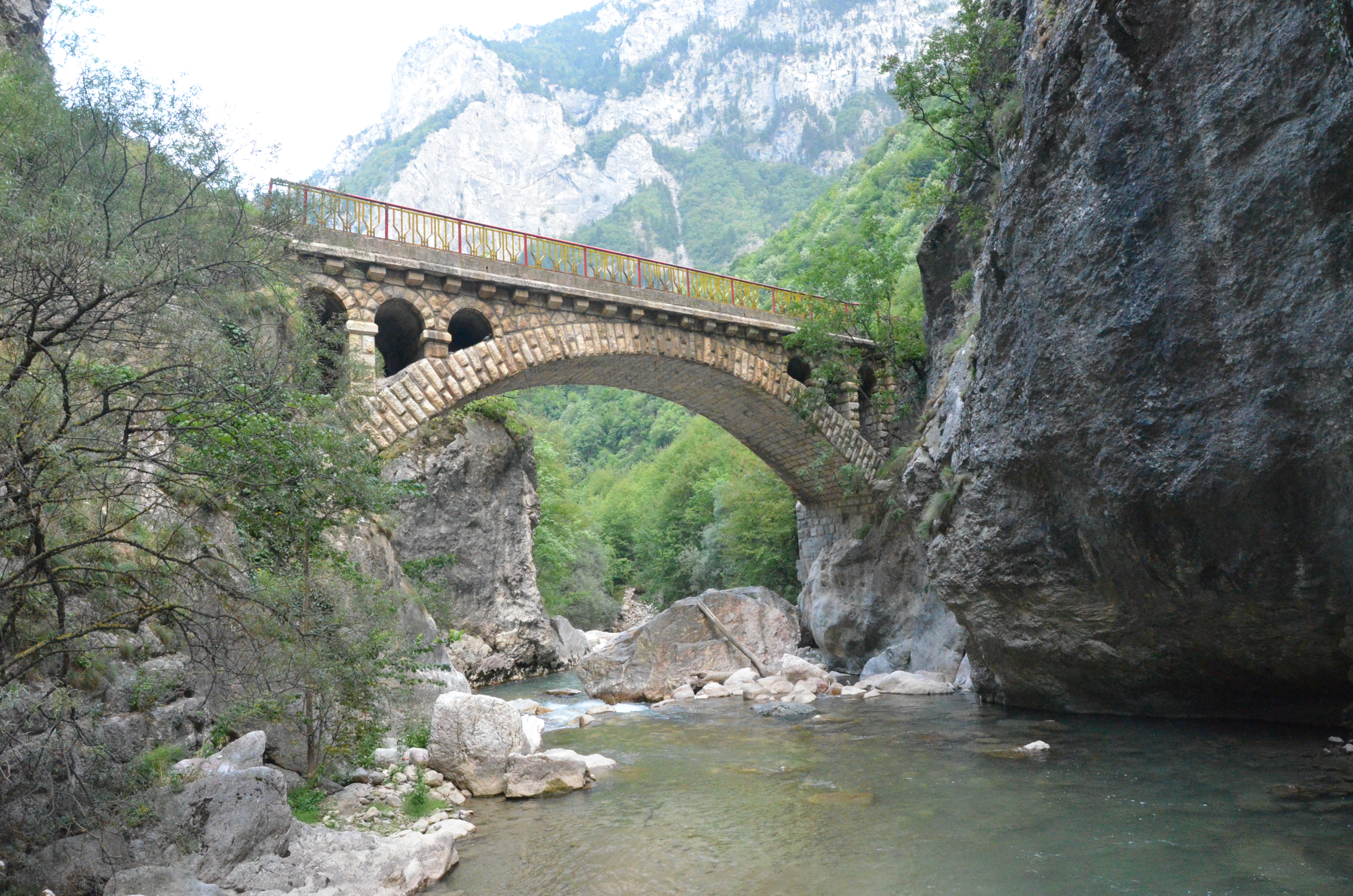 Rugova gorge bridge